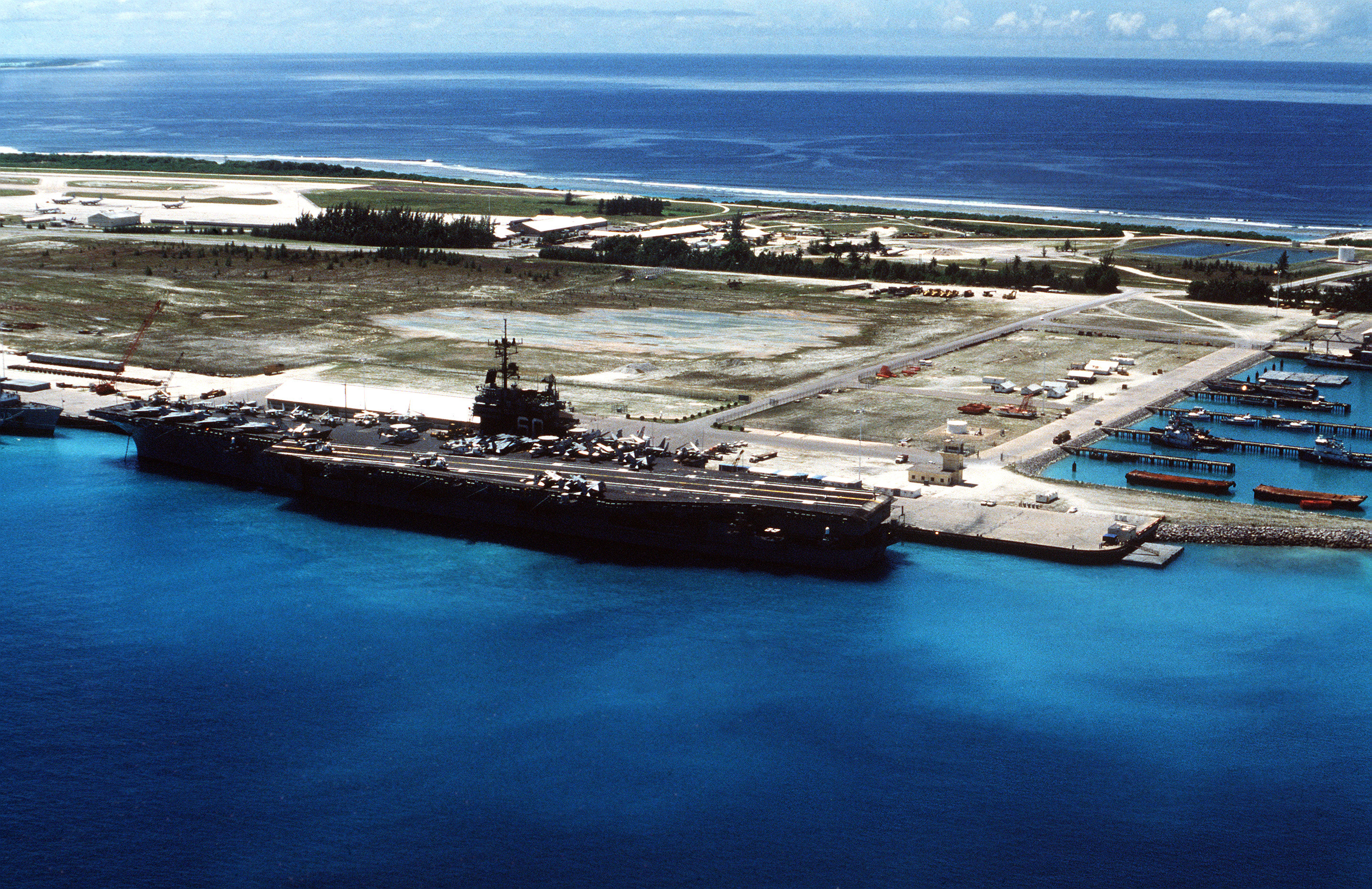 The U.S. Navy aircraft carrier USS Saratoga (CV-60) tied up at the British Naval Base at Diego Garcia. The Saratoga, with assigned Carrier Air Wing 17 (CVW-17), was deployed to the Mediterranean Sea and the Indian Ocean from 5 June to 16 November 1987. Note: dates incorrect. Saratoga was in the I/O at the end of 85, left in 86. Did NOT go to the I/O in 87-was a Med only cruise. I was onboard at the time.